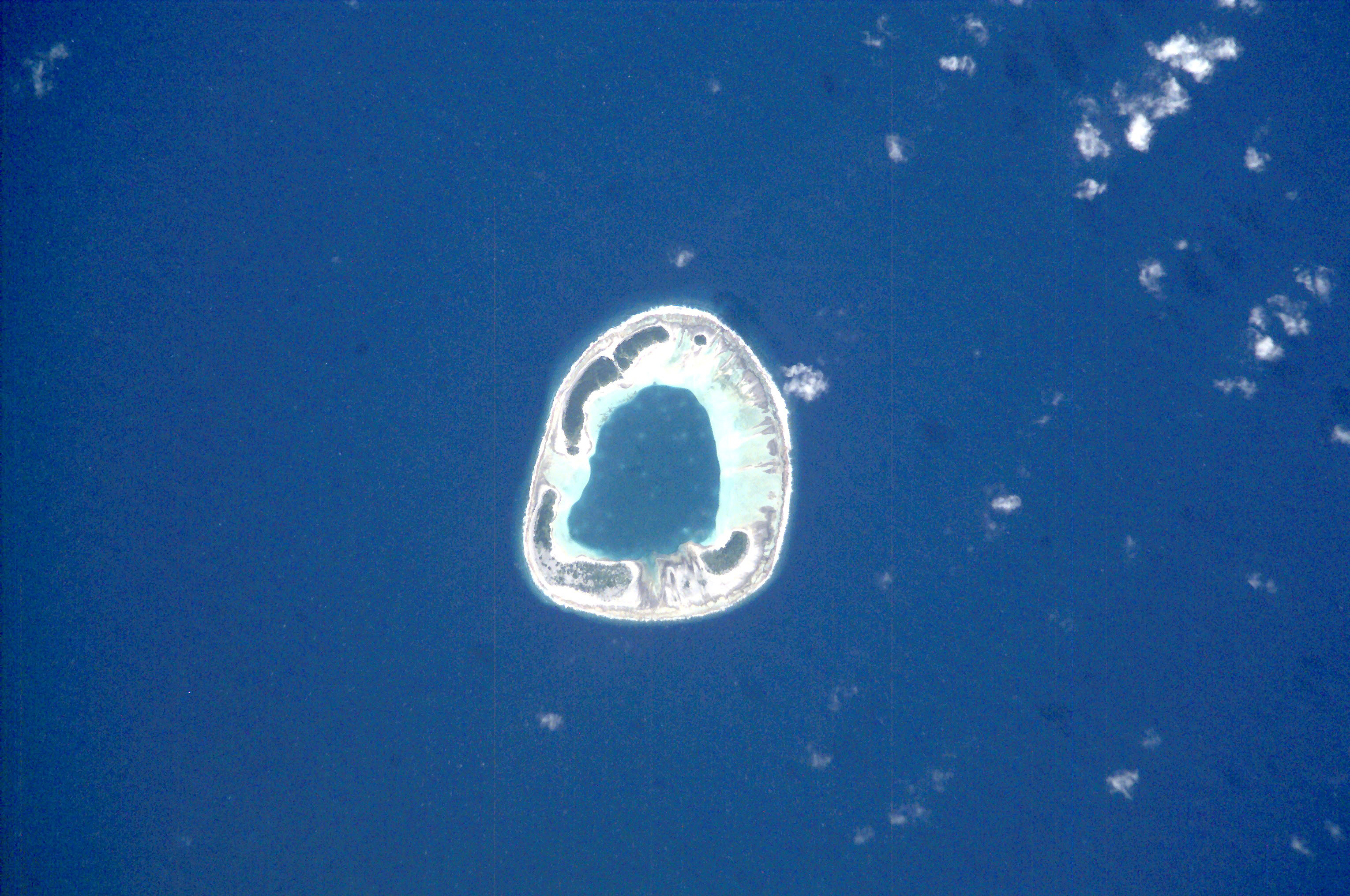 NASA Astronaut Image of Anuanurunga (Tuamotu Archipelago, French Polynesia) in the Pacific Ocean